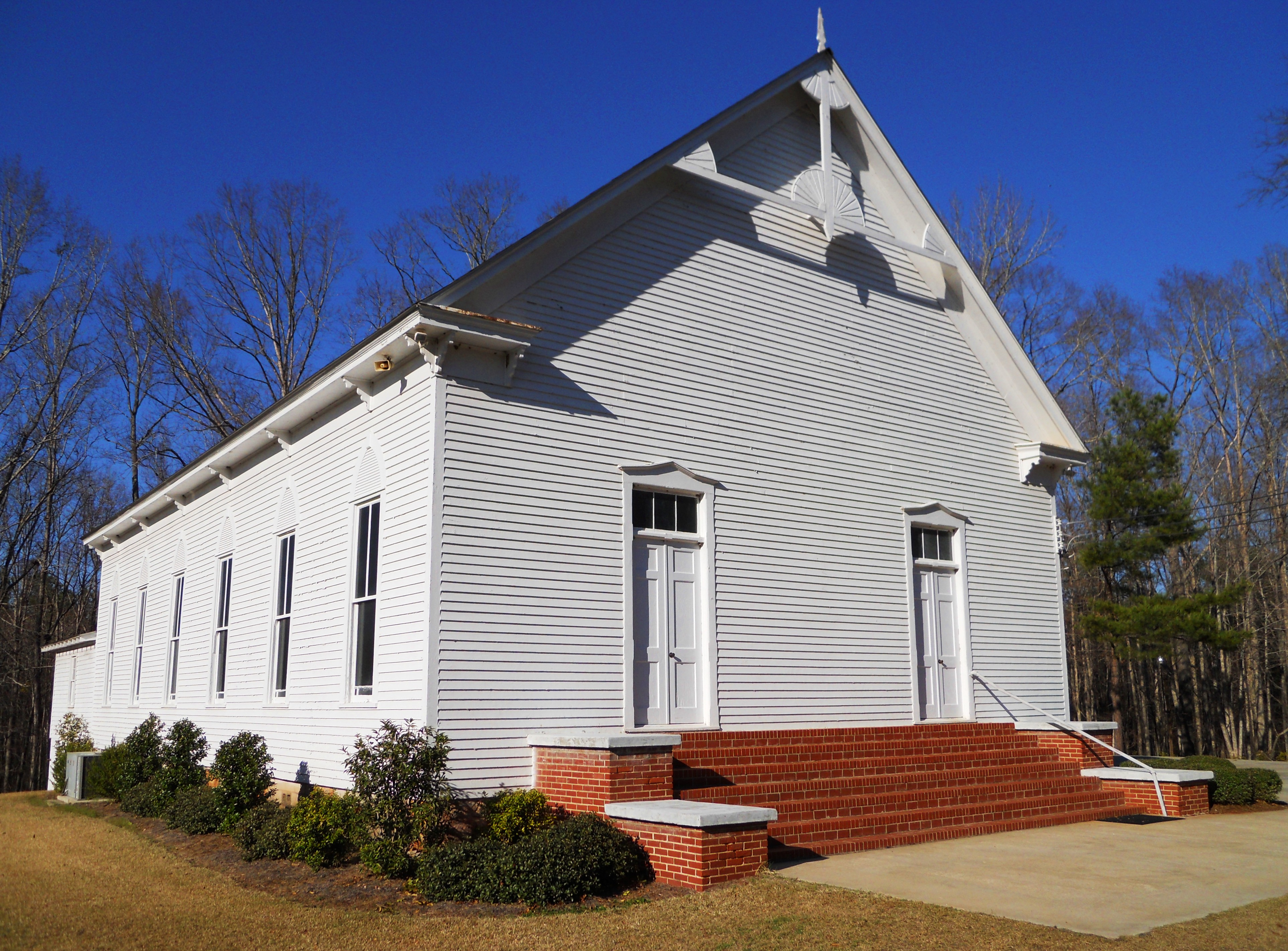 This is a photograph of the County Line Baptist Church near Dudleyville, Alabama. The church was built in 1890 and was placed on the National Register of Historic Places on August 19, 1982.